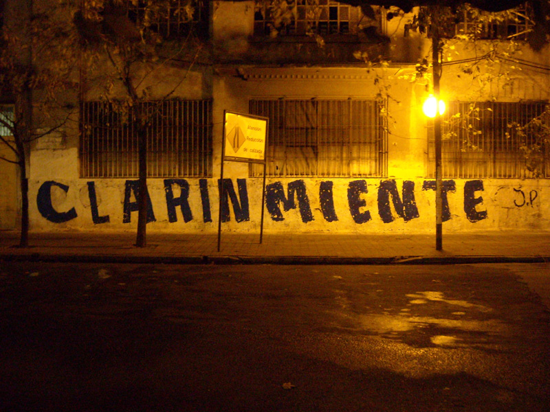 "Clarin lies".